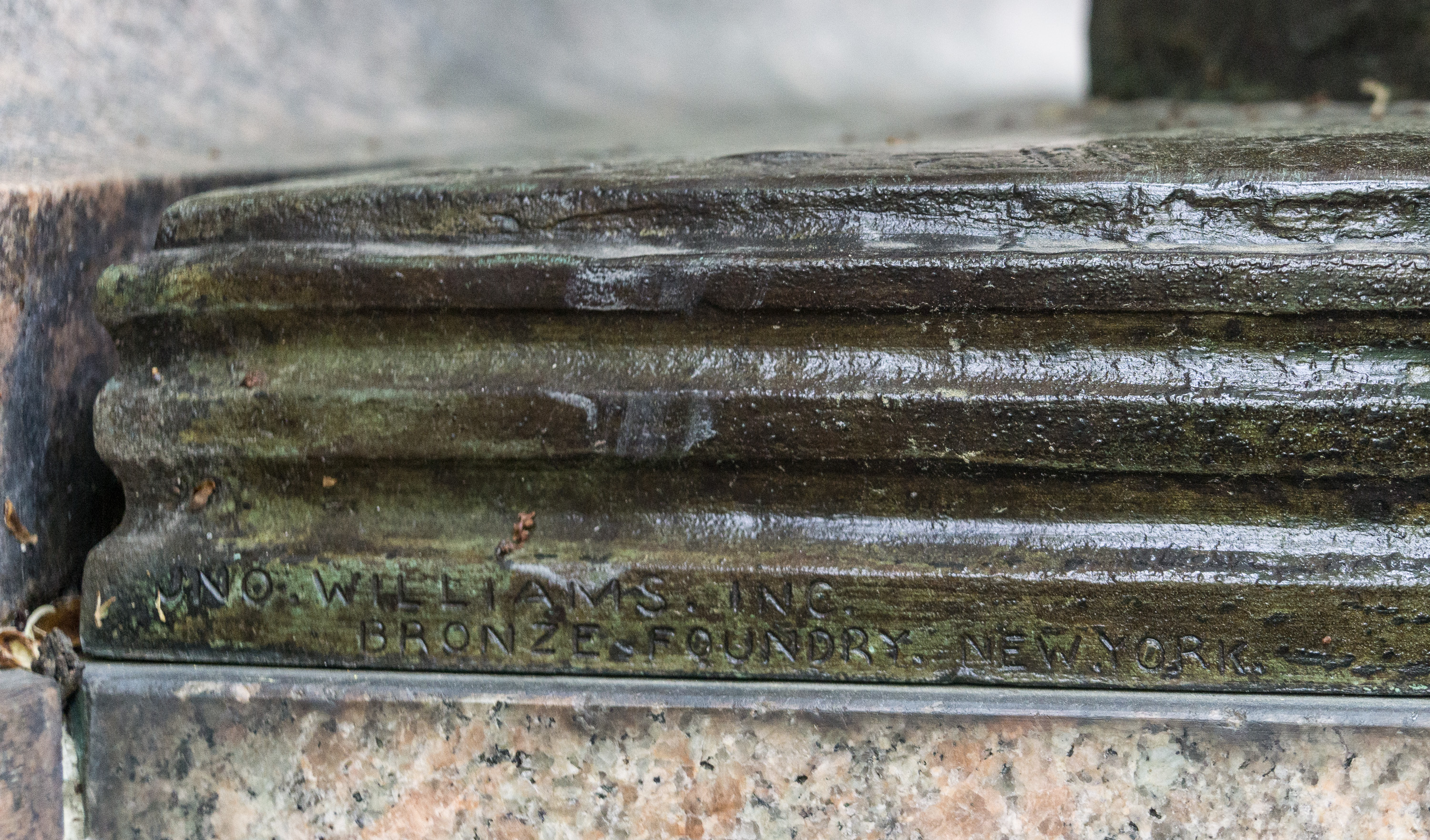 Jno. Williams, Inc. foundry mark. Wendell Phillips by Daniel Chester French, Boston Public Garden